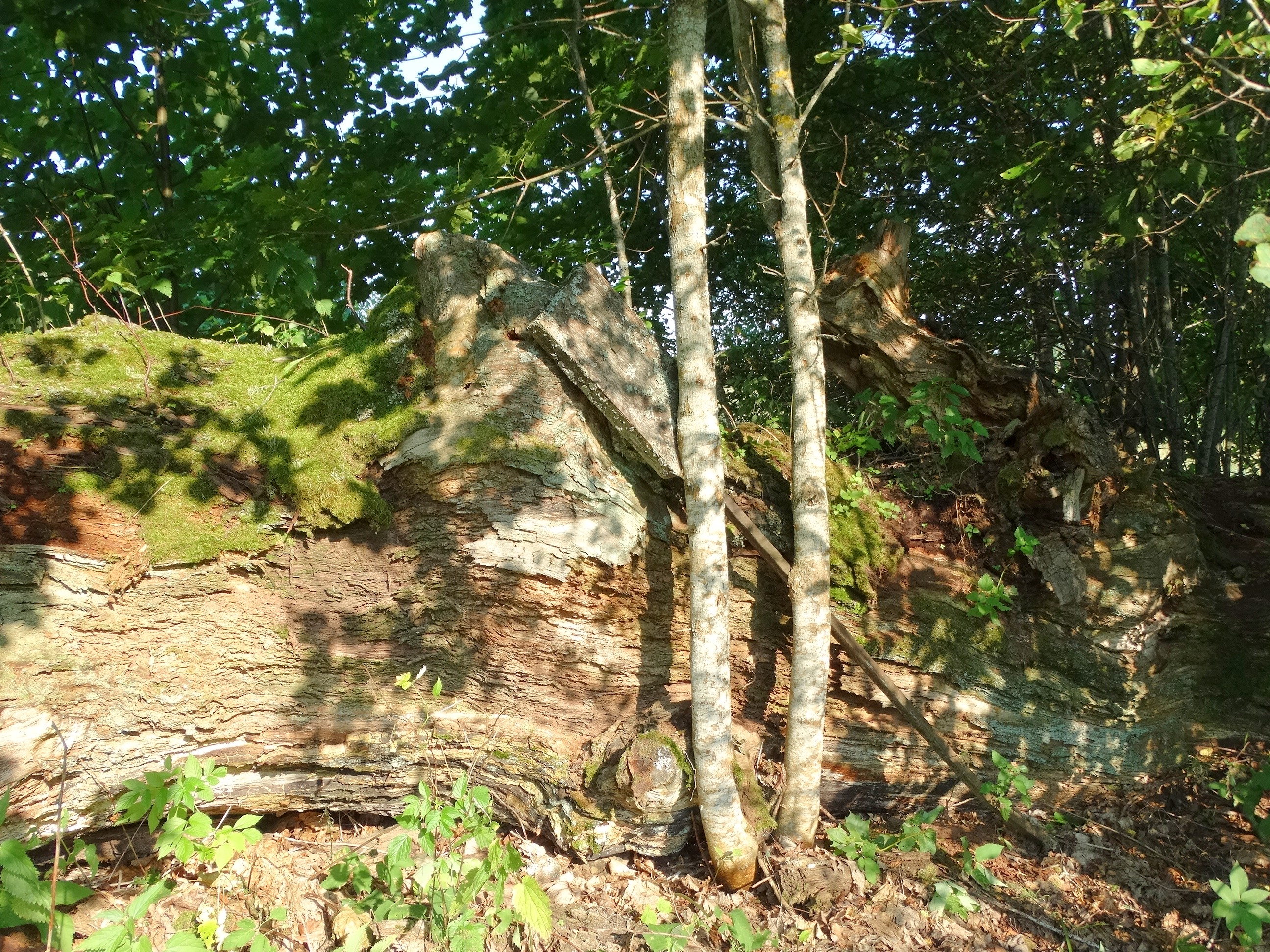 Varniškės lime tree, trunk, Utena district, Lithuania